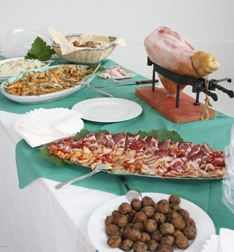 Catering